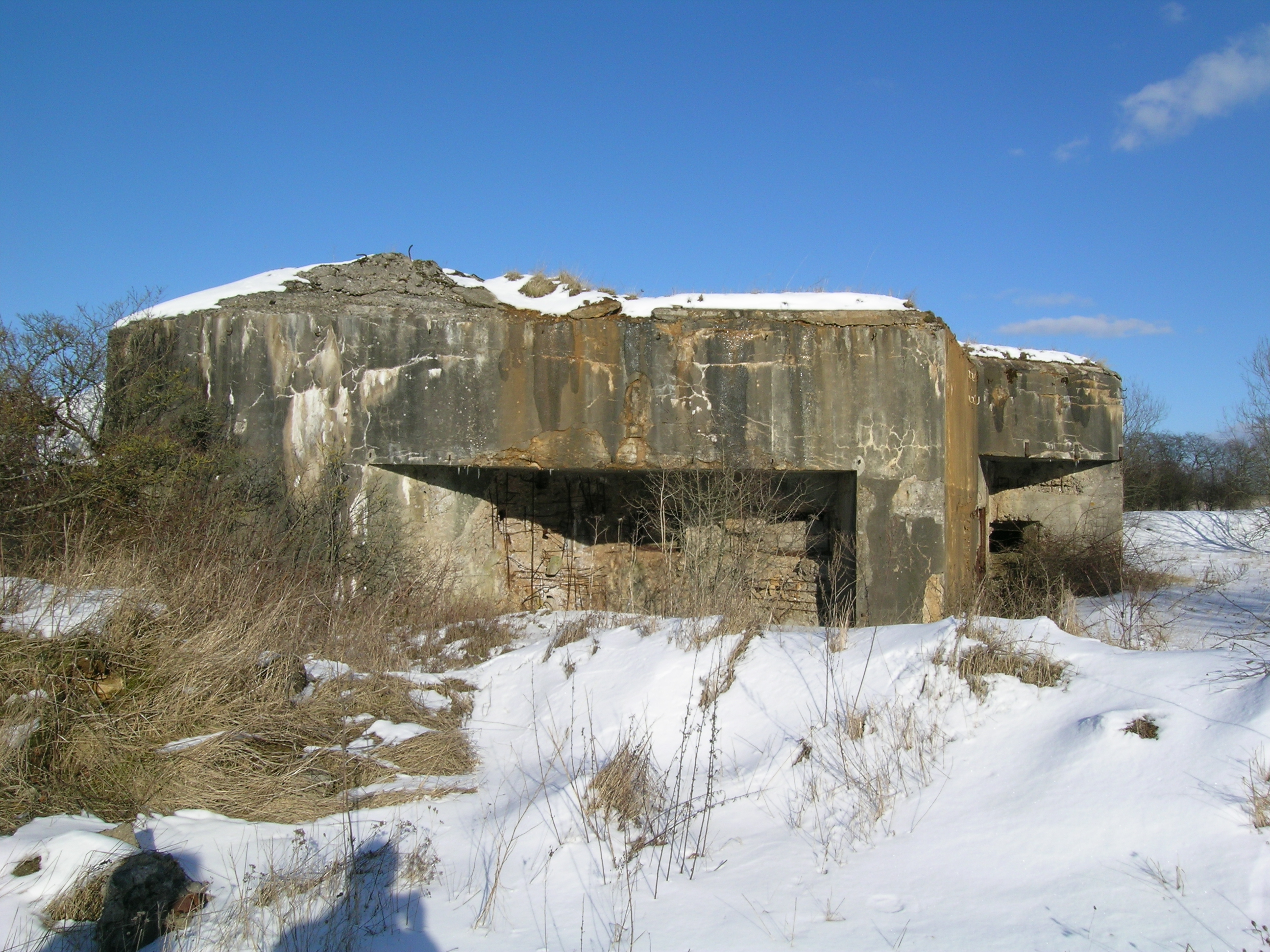 Bunker (ligne Maginot), Crusnes, France.